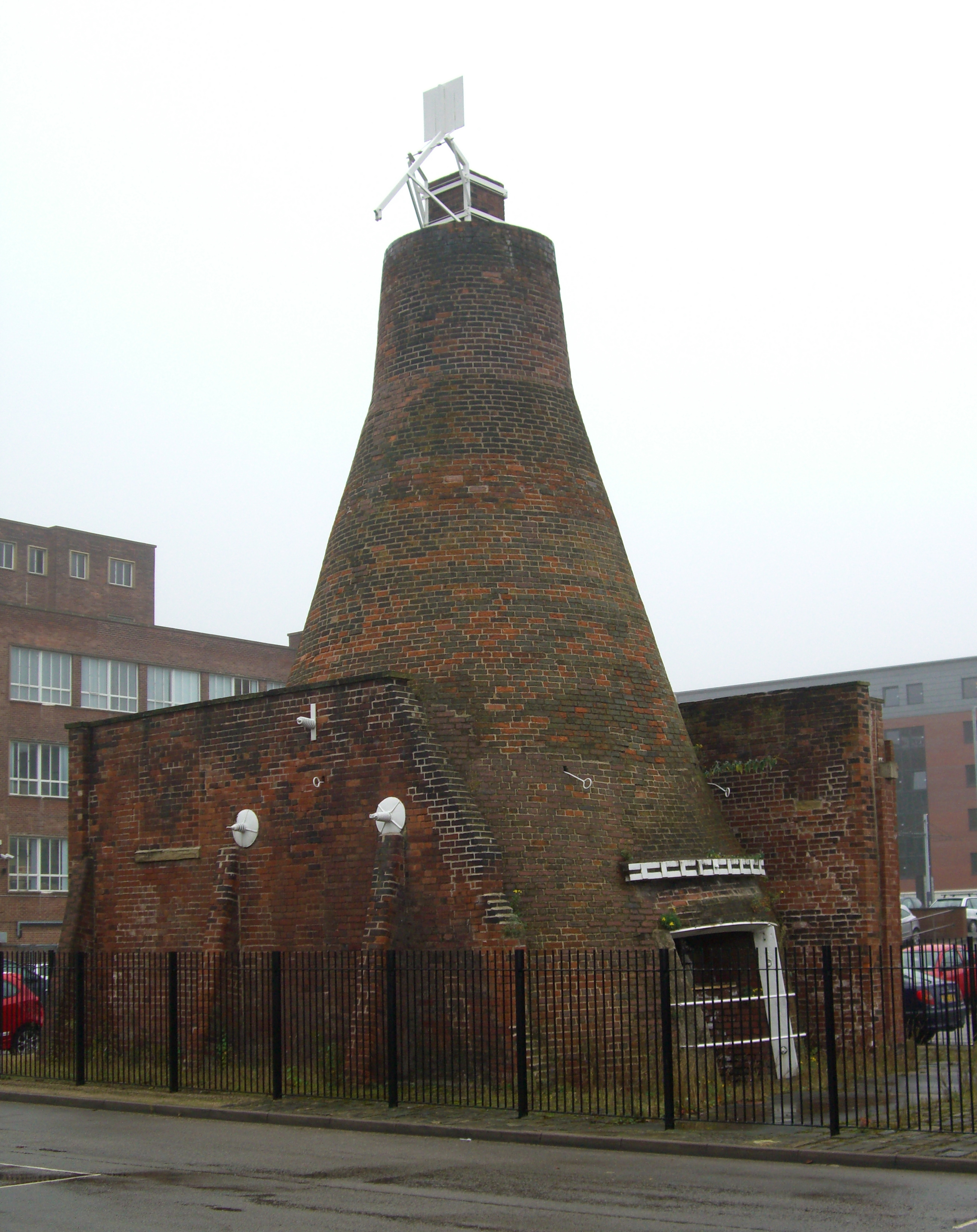 The only remaining intact Cementation furnace in Great Britain on Doncaster Street in Sheffield, England.